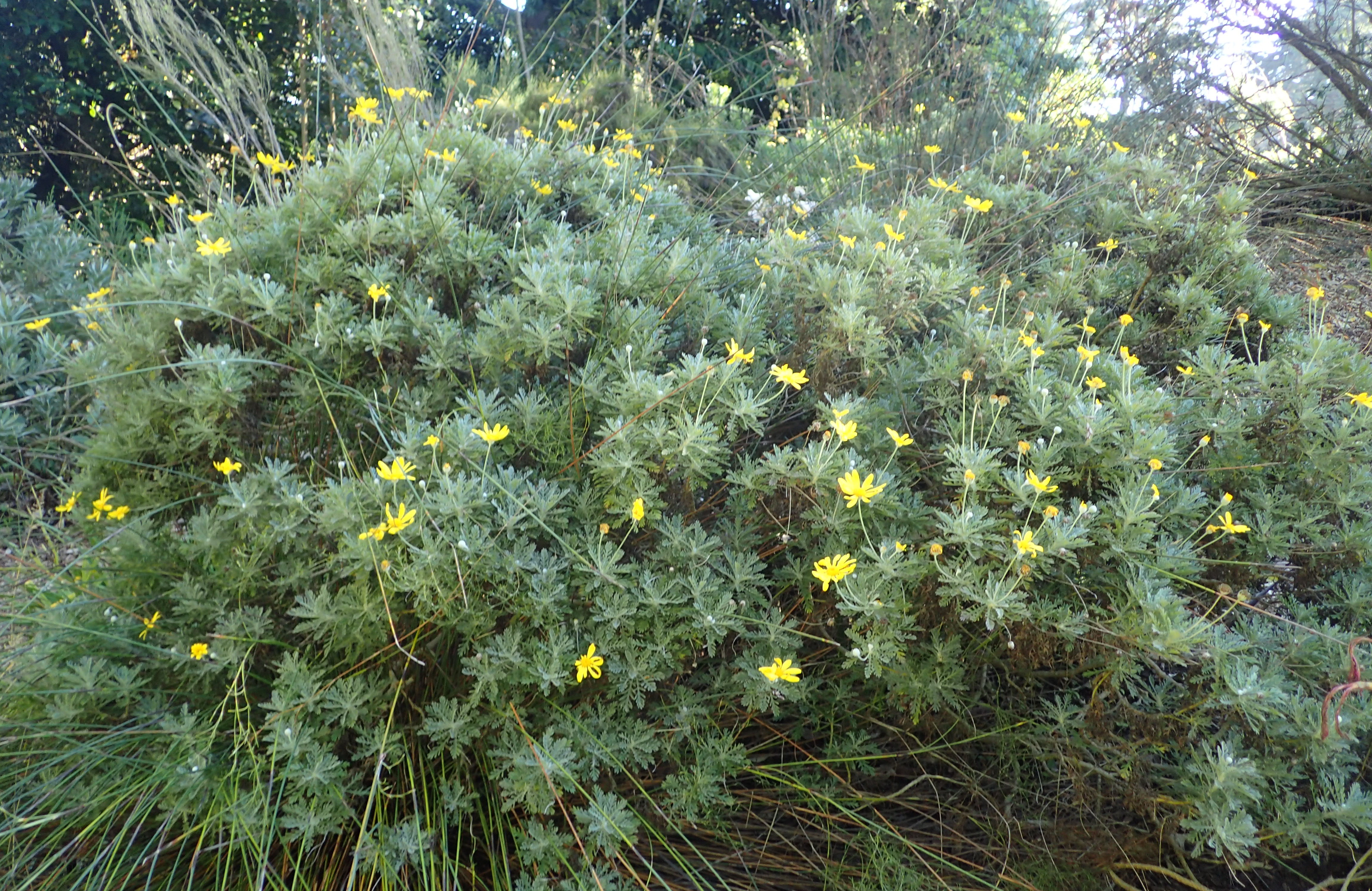 Euryops pectinatus in the San Francisco Botanical Garden